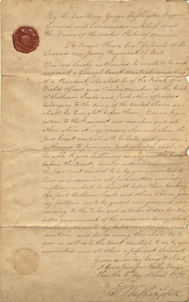 Copy of correspondence from [Washington, George] on May 23, 1778. Sent from Headquarters in Valley Forge.